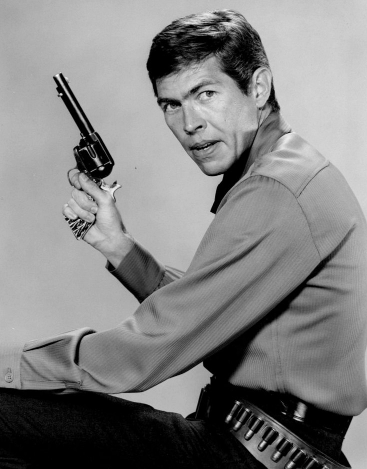 Photo of James Coburn as Anthony Wayne from the television program The Californians. This introduced the character to the series as the cousin of Marshall Matt Wayne (Richard Coogan).